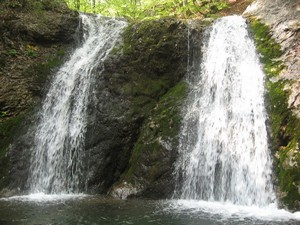 One of the waterfalls on Davščica river, Slovenia